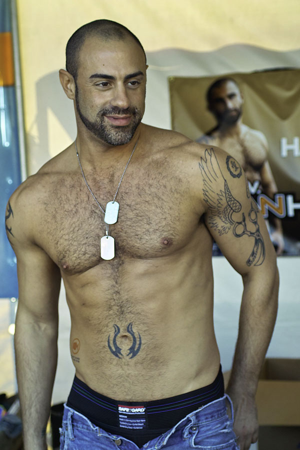 C.J. Madison at 2007 Folsom Street Fair